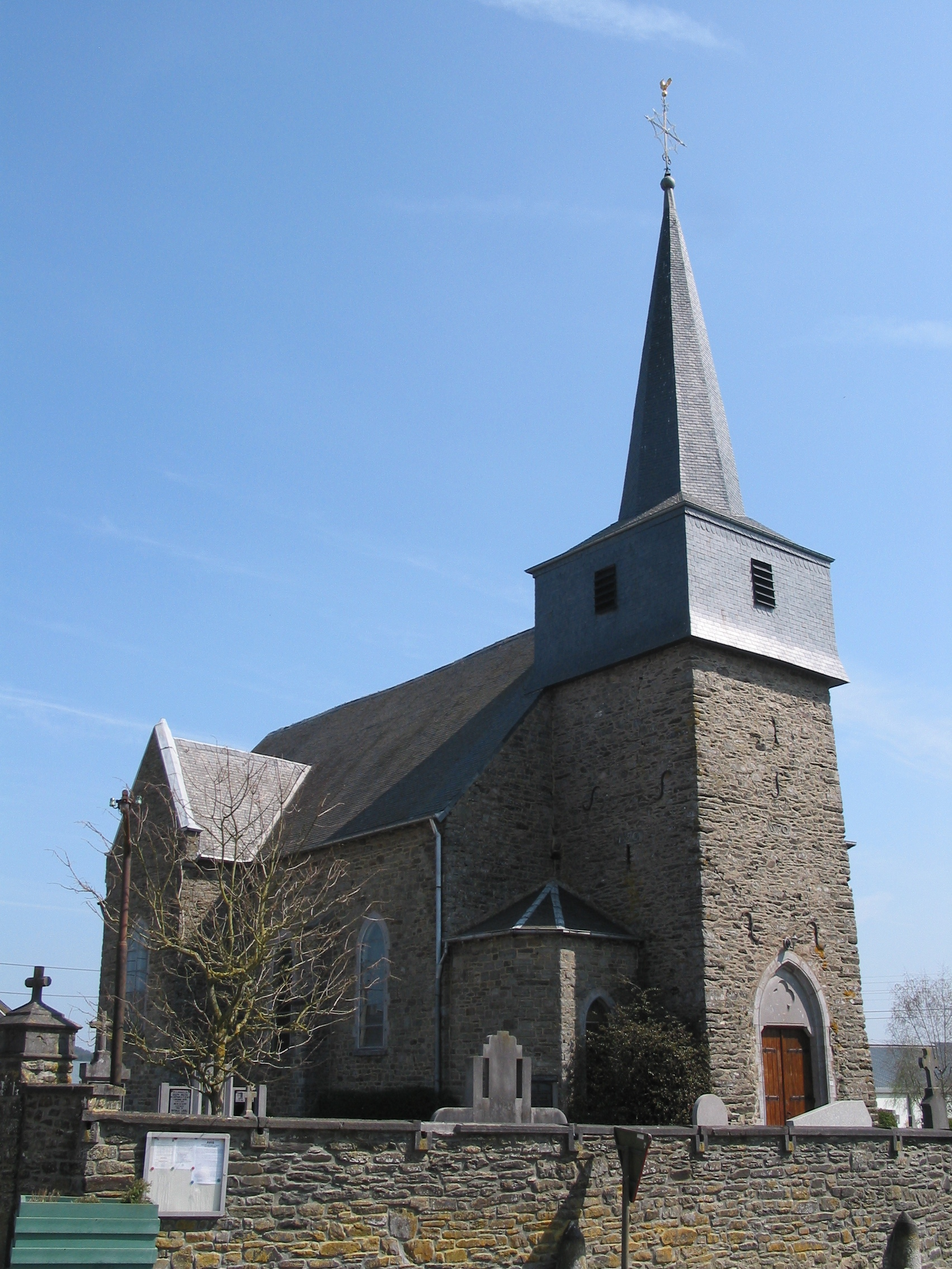 Bertogne (Belgium), the St. Lambert church (tower ca. 1670)